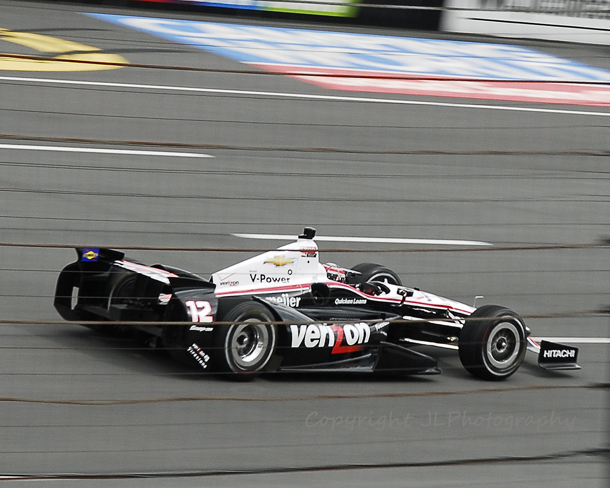 Indy Car Tire Test at Pocono Raceway